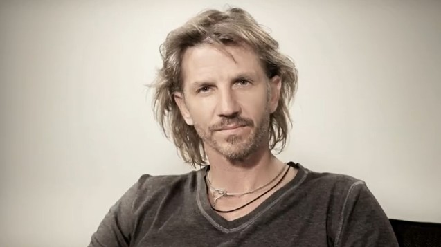 Facundo Arana, Argentinian actor, singer and saxofonist